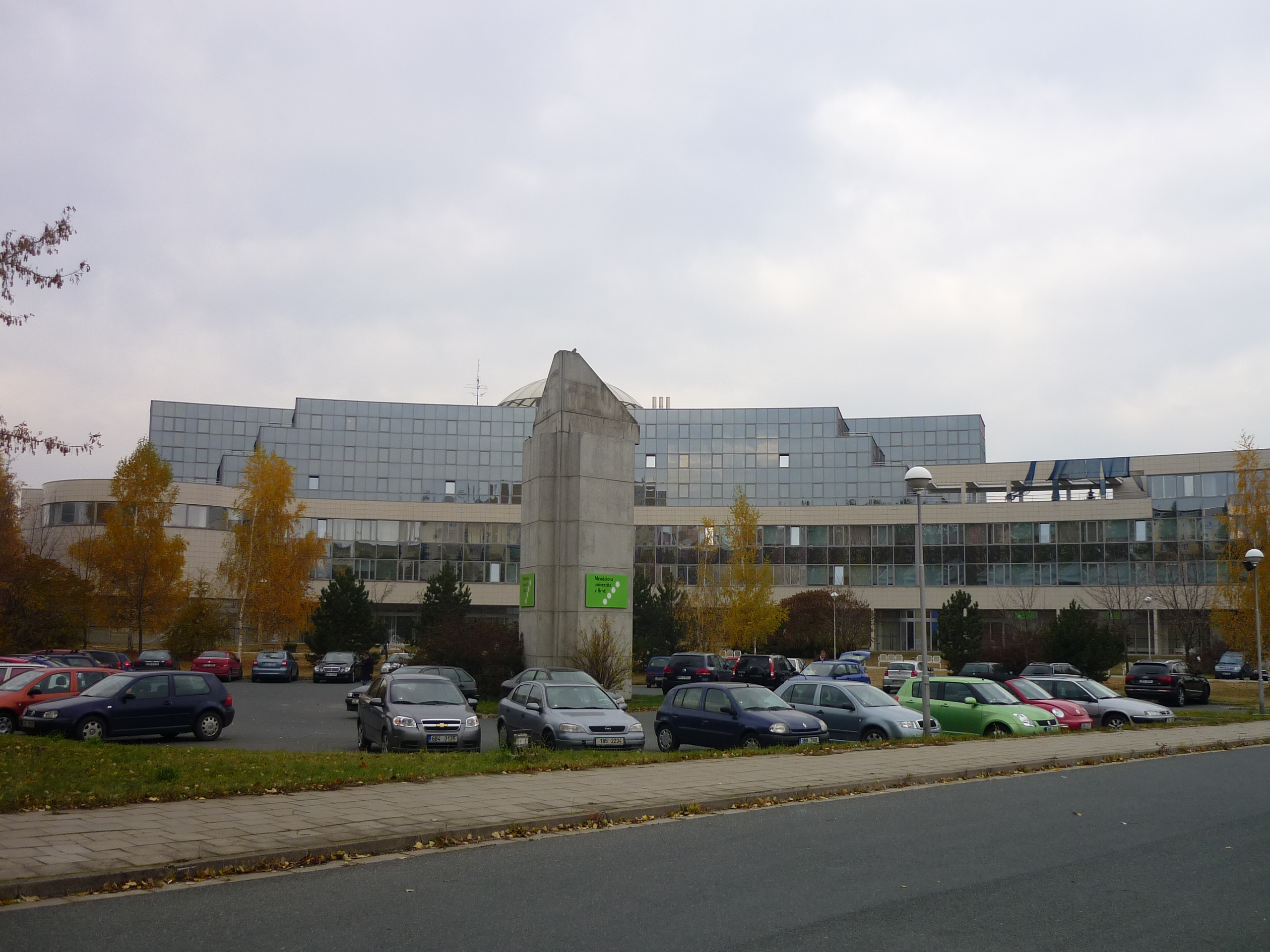 New building of The Faculty of Regional Development and International Studies